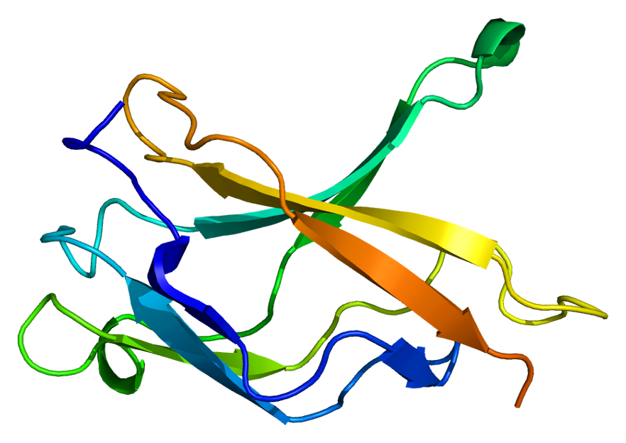 Structure of the NFKB1 protein. Based on PyMOL rendering of PDB 1bfs.